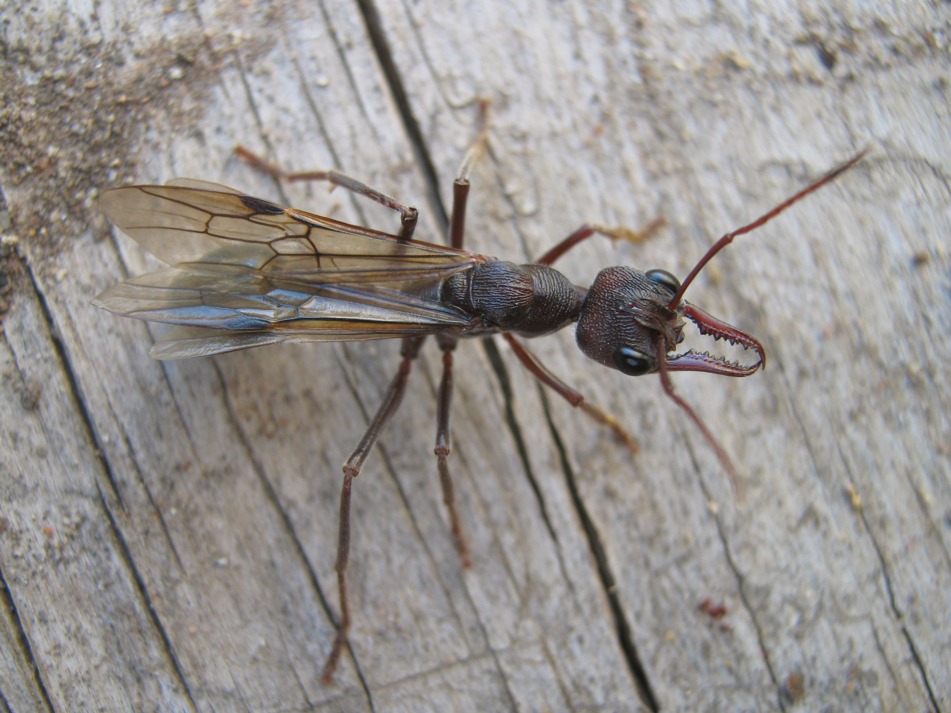 A winged bulldog ant (Myrmecia) in Kialla, Victoria, Australia.